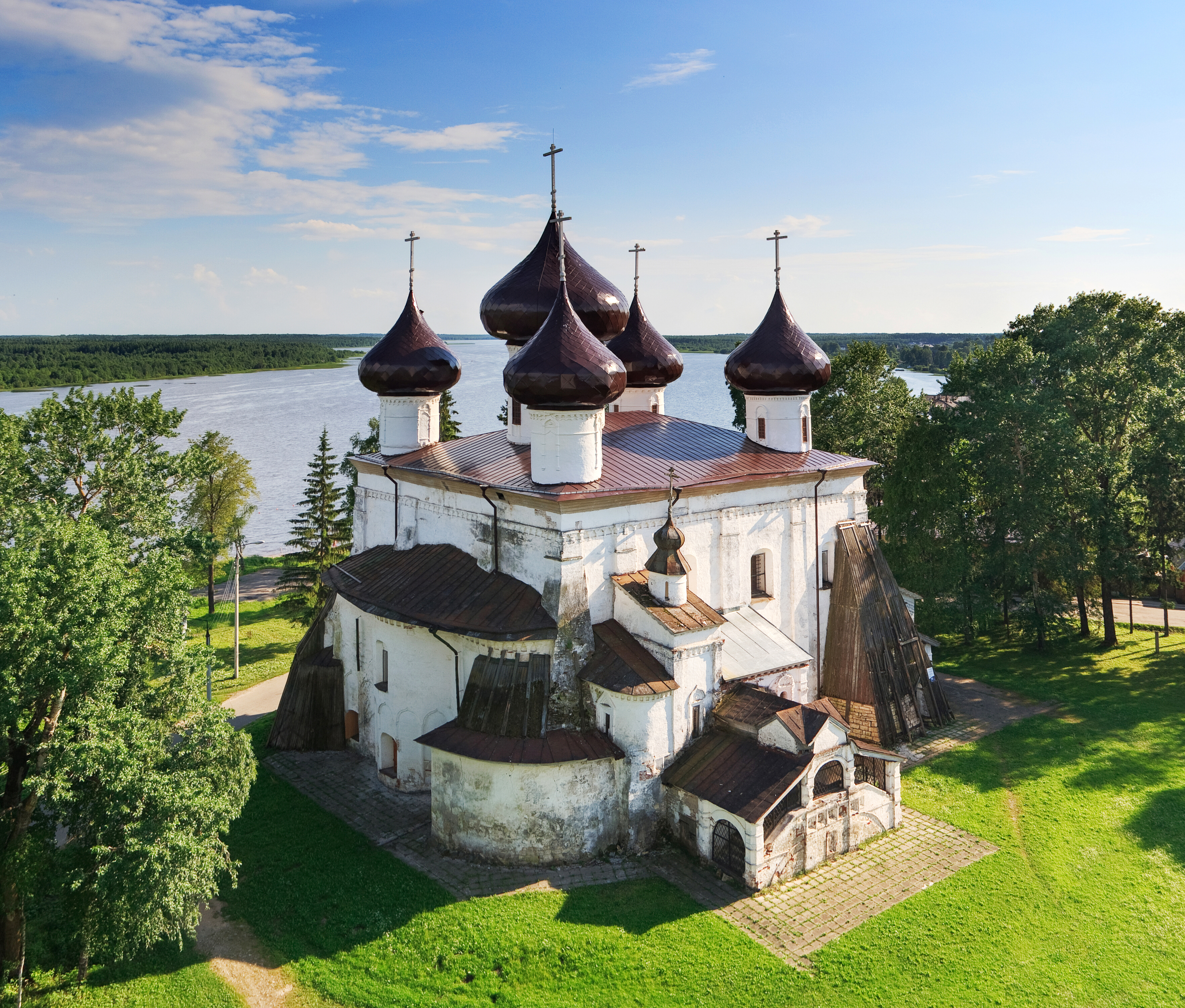 Church of the Nativity of Christ, Kargopol, Arkhangelsk Oblast, Russia